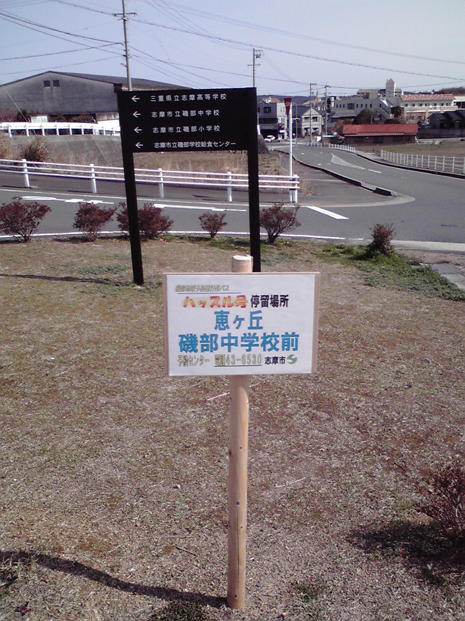 Megumigaoka Isobe-chugakko-mae (Megumigaoka Isobe Junior High School) Bus stop for Isobe-chiiki yoyaku unko-gata Bus (Isobe Area Reservation System Bus) Hustle-go operated in Shima City, Mie Prefecture, Japan